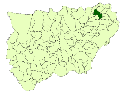 Situation of the municipality of La Puerta de Segura (Jaén, Spain).